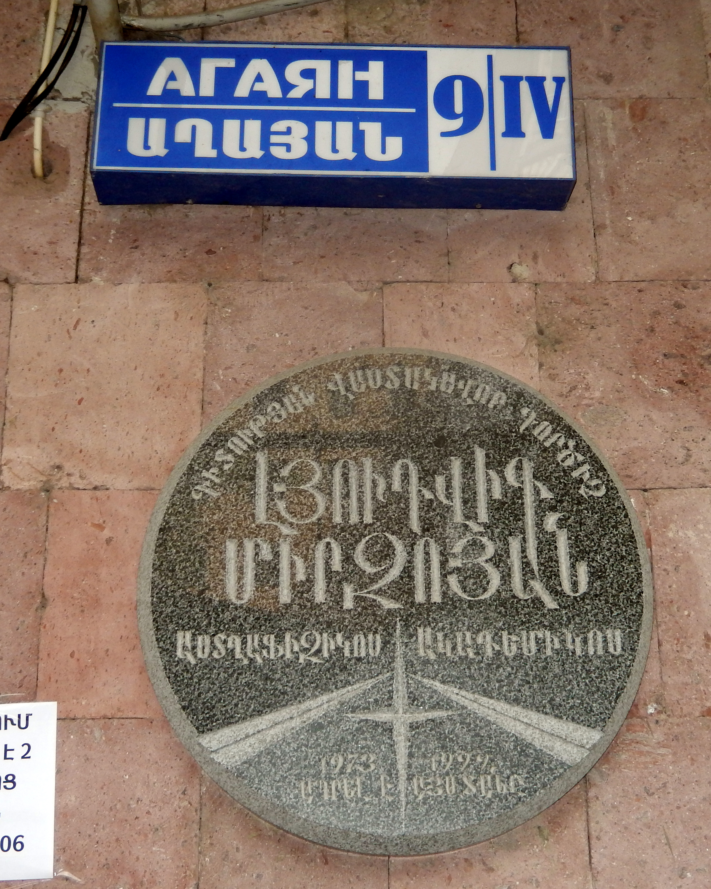 Lyudvig Mirzoyan's plaque on Aghayan street, Yerevan